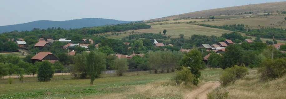 Mereni, covasna County, Transylvania, Romania